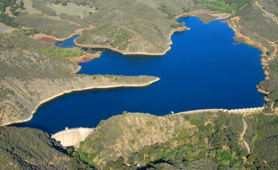 Aerial view of West end of Jameson Lake, looking over Santa Ynez River toward the East. This work is free and may be used by anyone for any purpose. If you wish to use this content, you do not need to request permission as long as you follow any licensing requirements mentioned on this page.